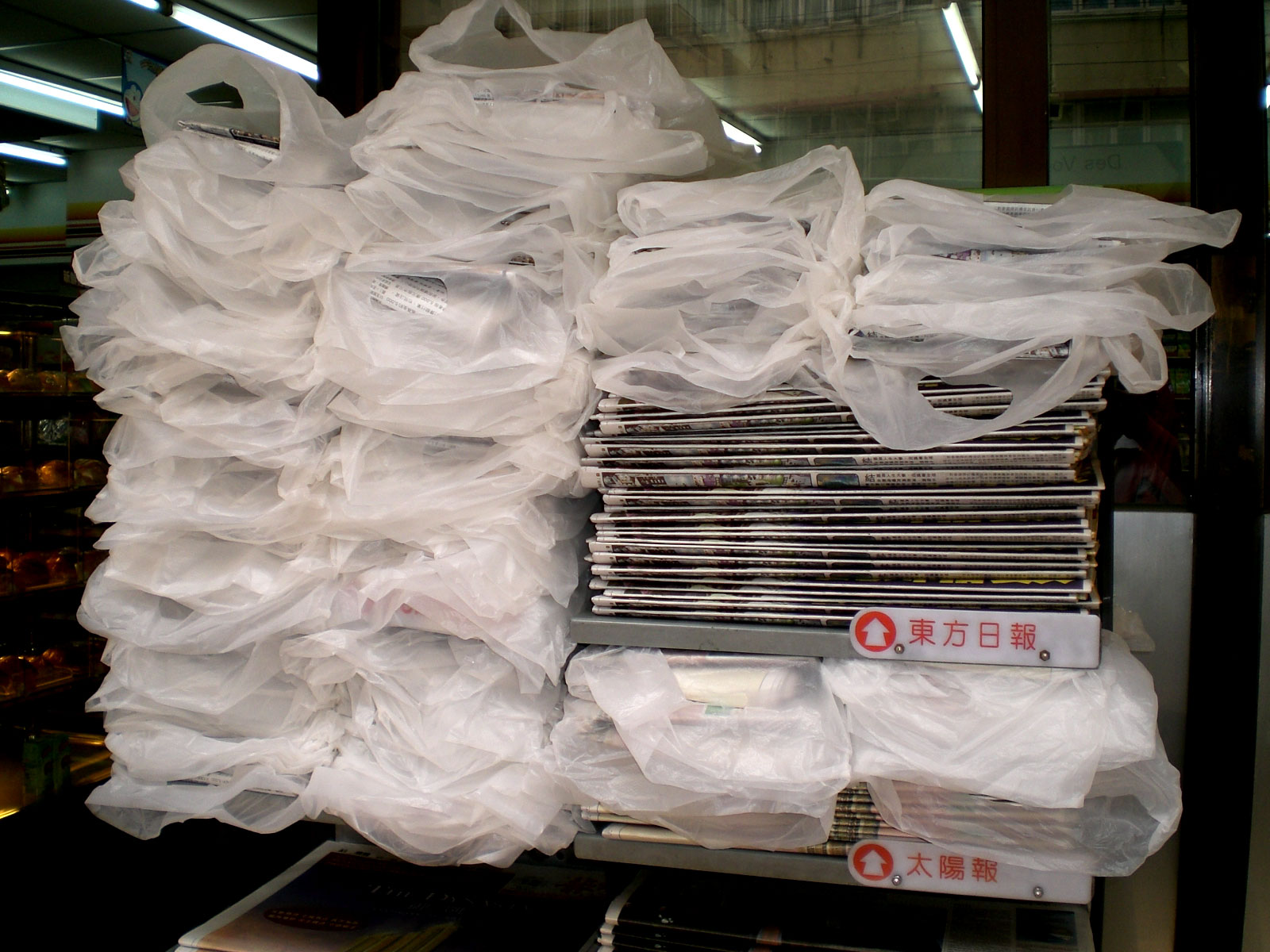 西環德輔道西鄰近街景香港報紙市場營銷包裝